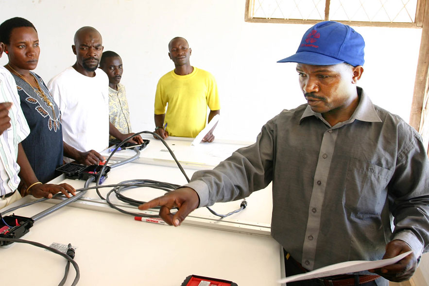 Gaspar Makale (right, in hat) teaches a solar workshop in Kigoma, Tanzania